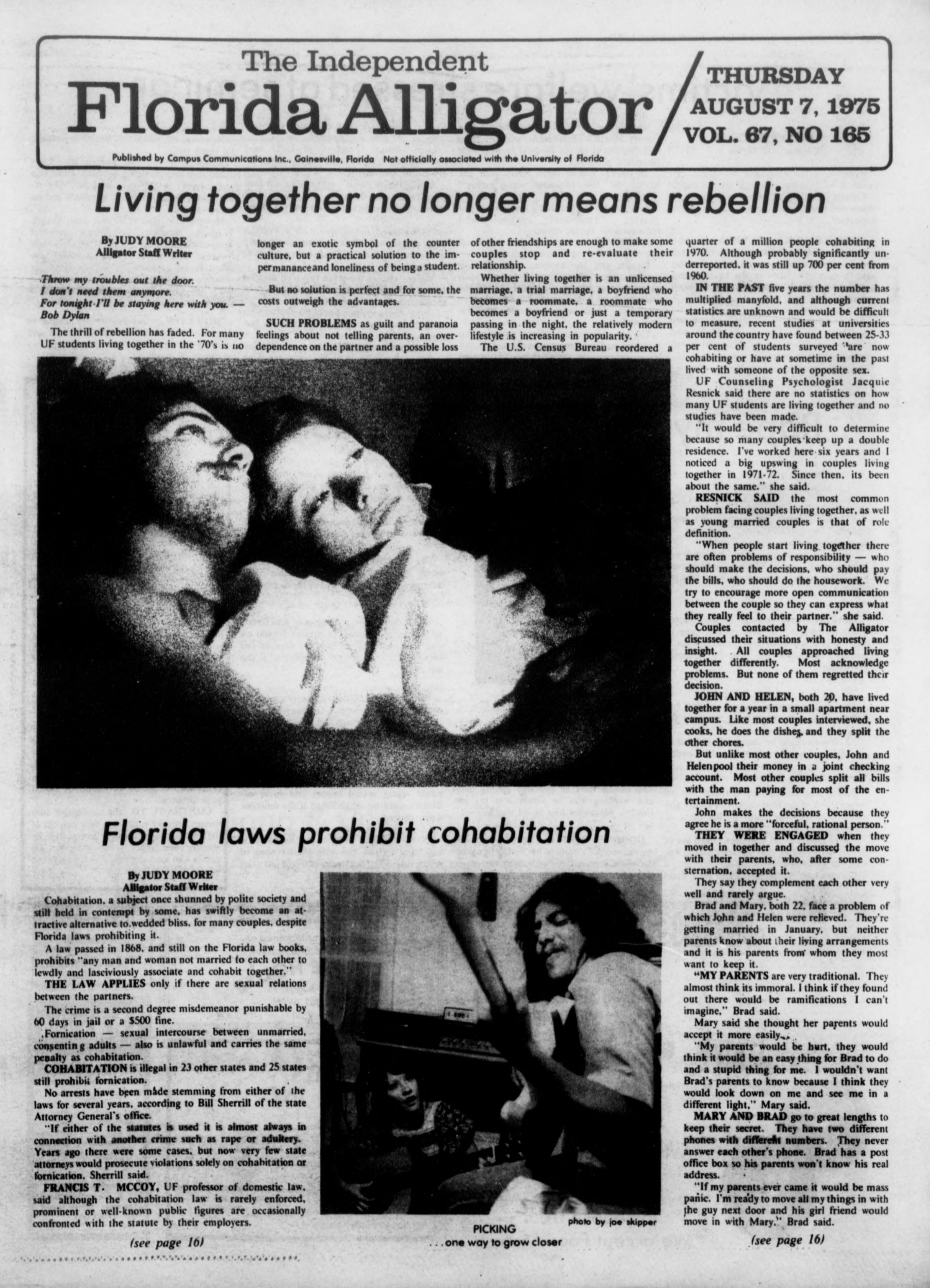 The front page of the Independent Florida Alligator, Vol. 67, No. 165.